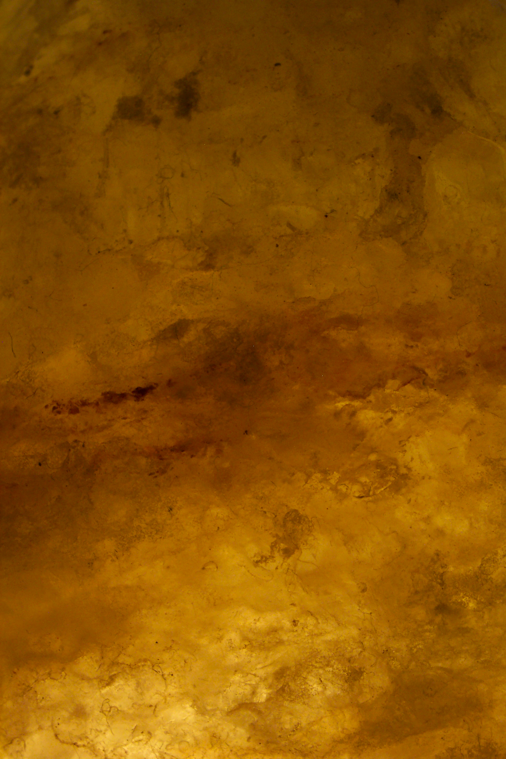 Stones in Israel